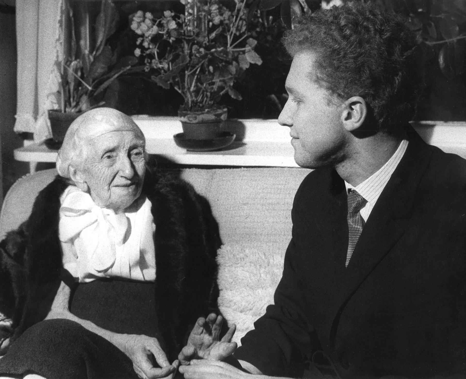 Photograph of Mrs. Aino Sibelius (1871–1969) and the Russian violinist Oleg Kagan (1946–1990) meeting in Ainola, Järvenpää, on the 100th birthday of the late Jean Sibelius.